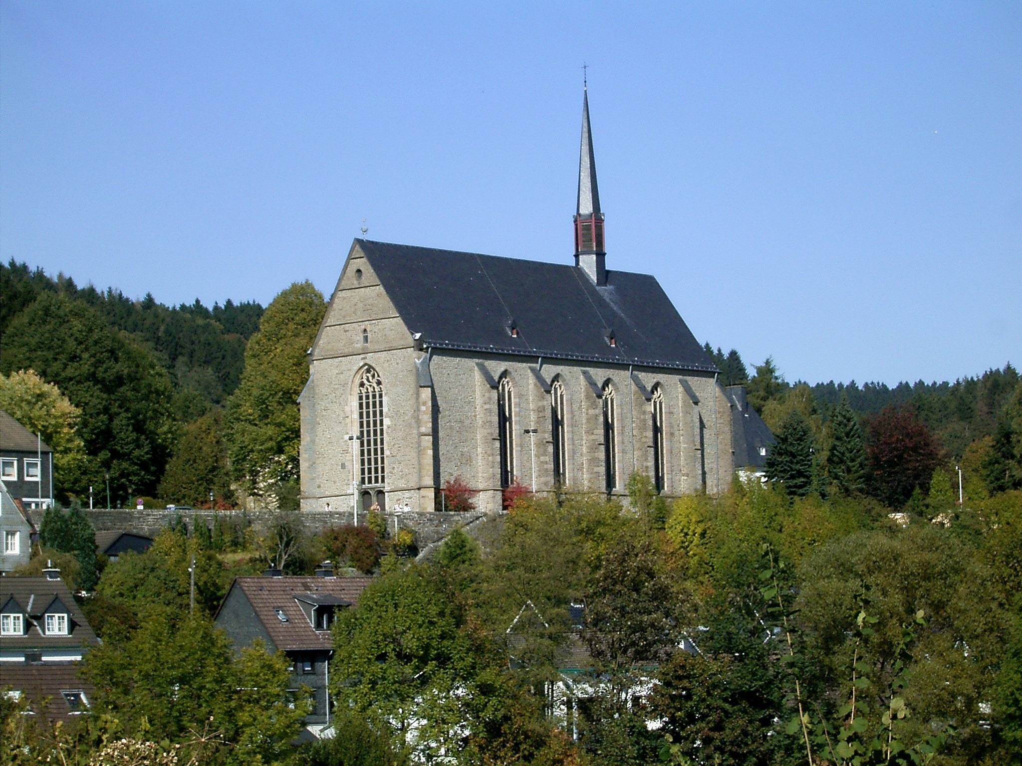 Description: Wuppertal-Beyenburg